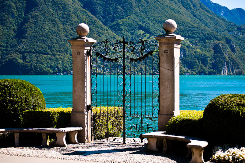 It's a very impressive place at the Lago di Lugano in Switzerland.